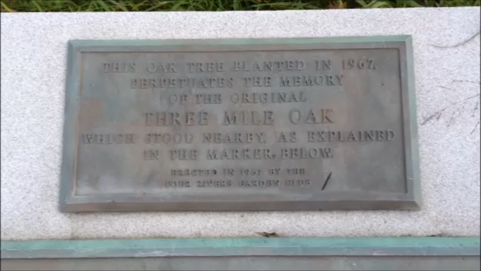 Updated plaque for the Three Mile Oak Tree